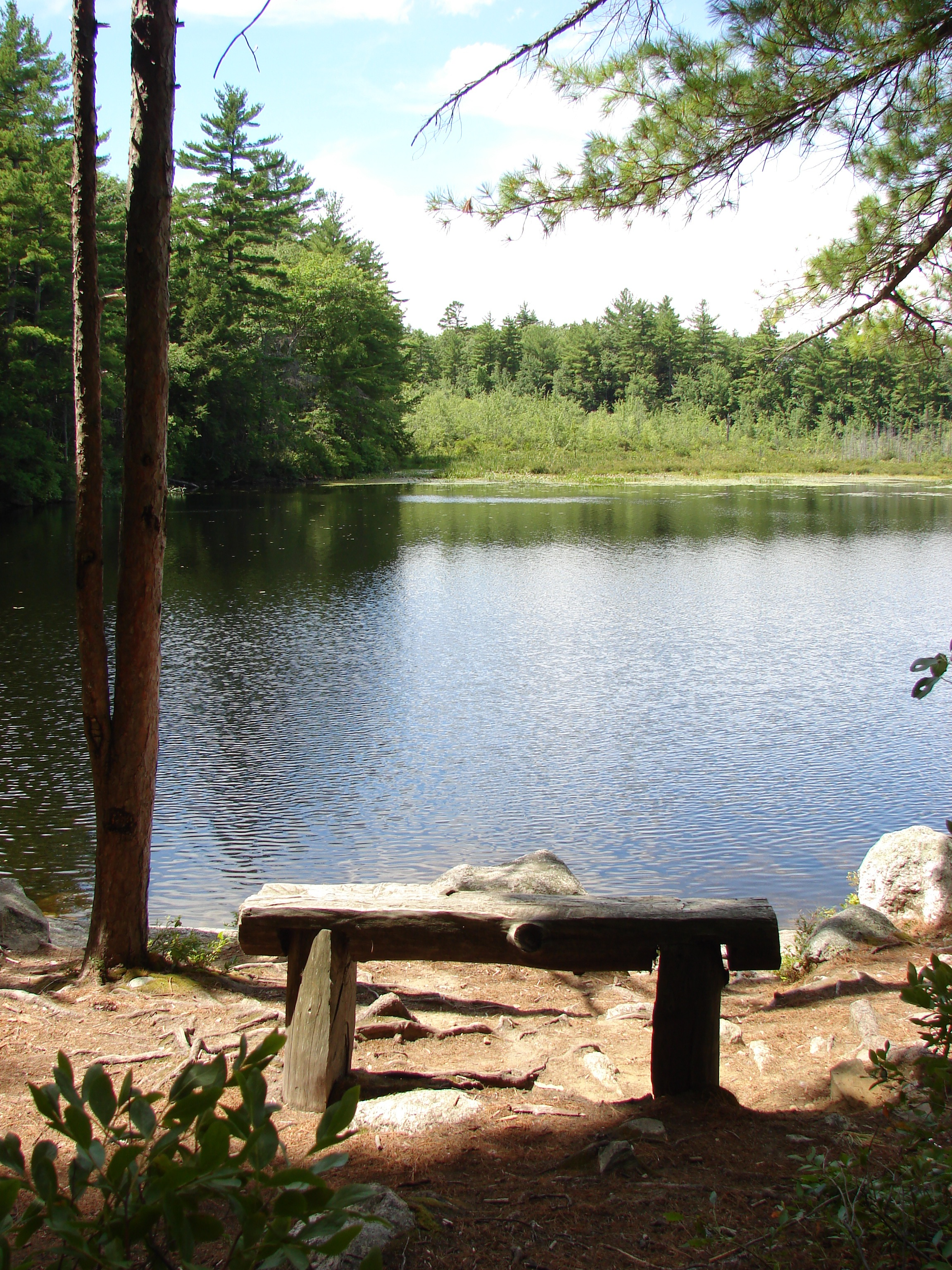 Beaver Pond as seen from the Beaver Pond Trail in Bear Brook State Park in southern New Hampshire.